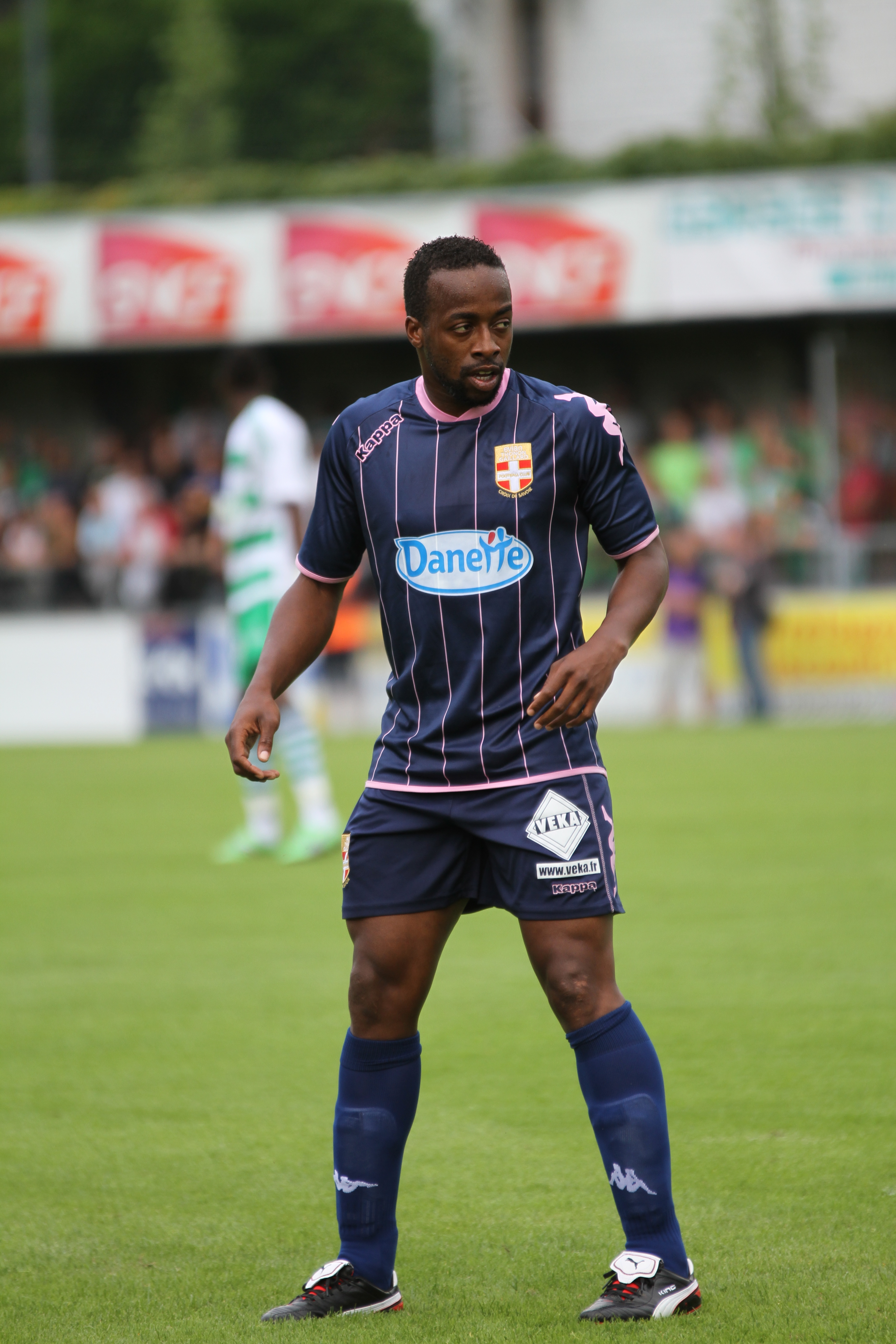 Sidney Govou